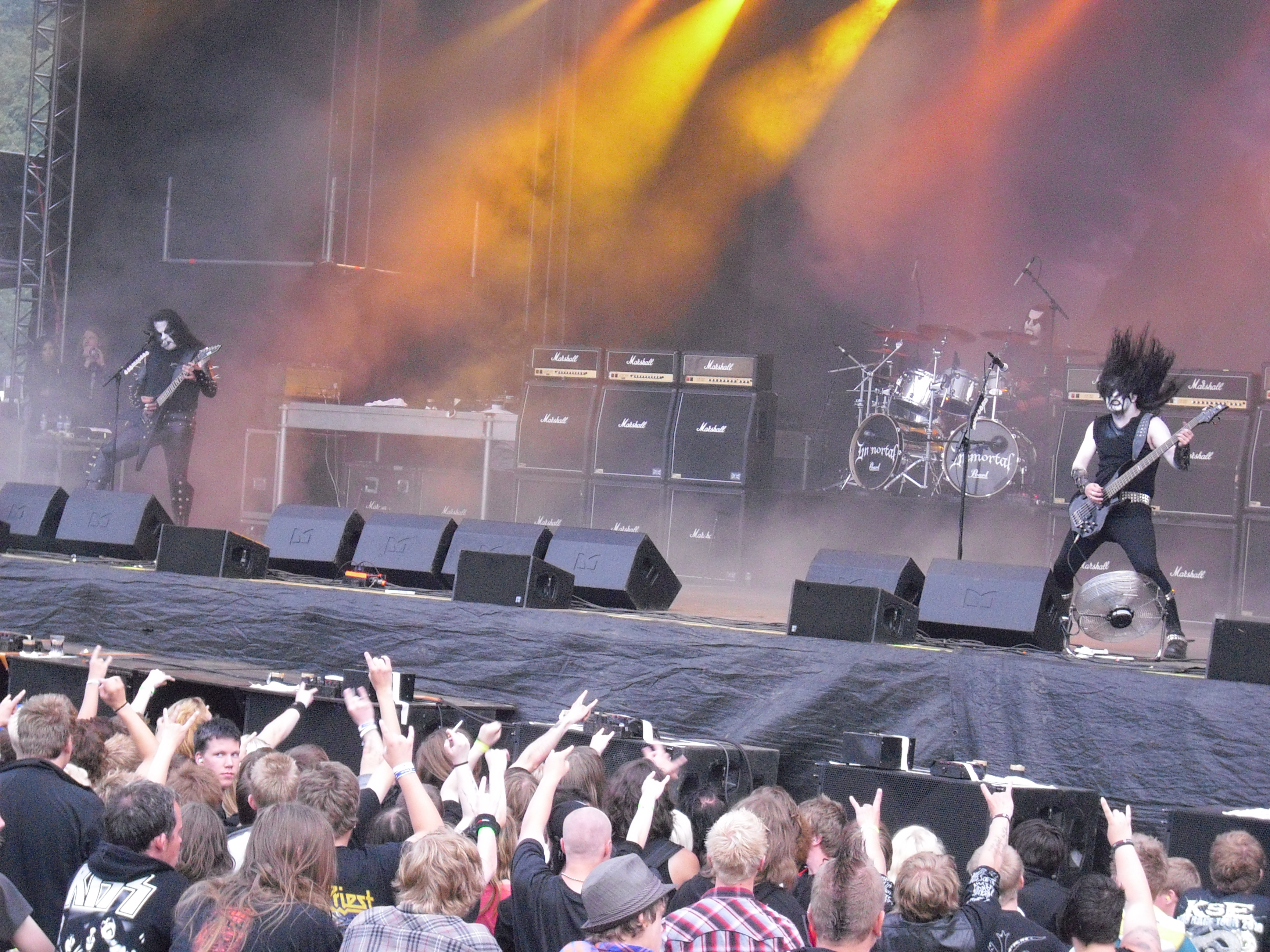 Immortal performing at Norway Rock Festival in July 2010